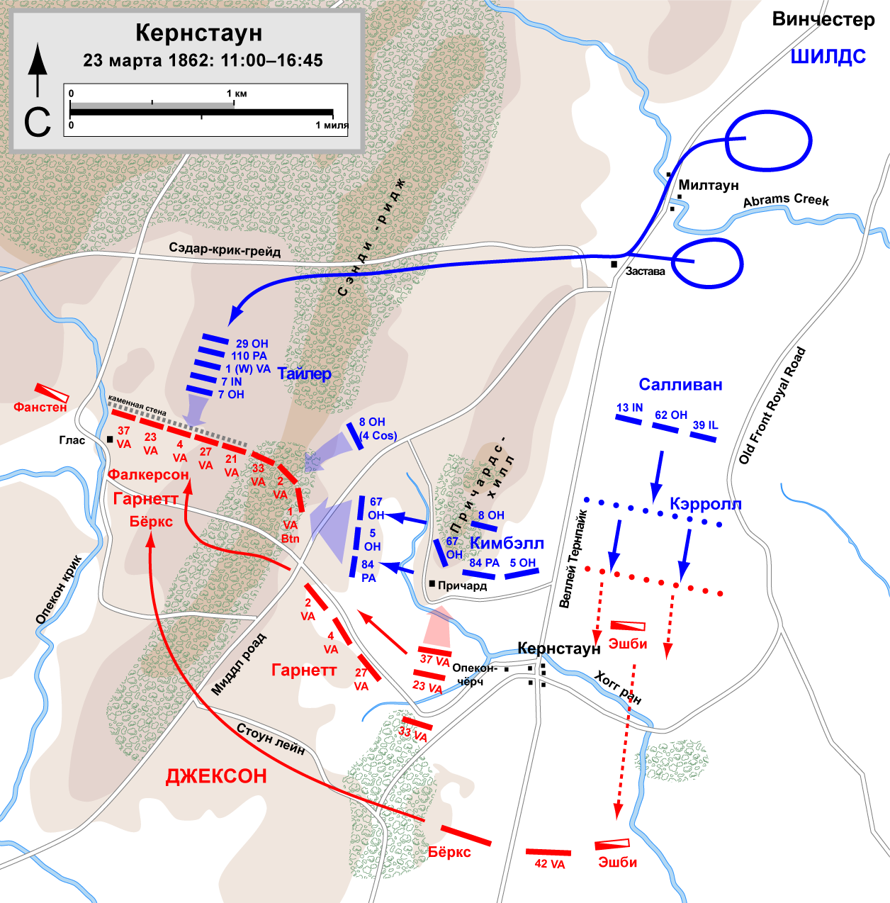 Map of the First Battle of Kernstown of the American Civil War. Russian version